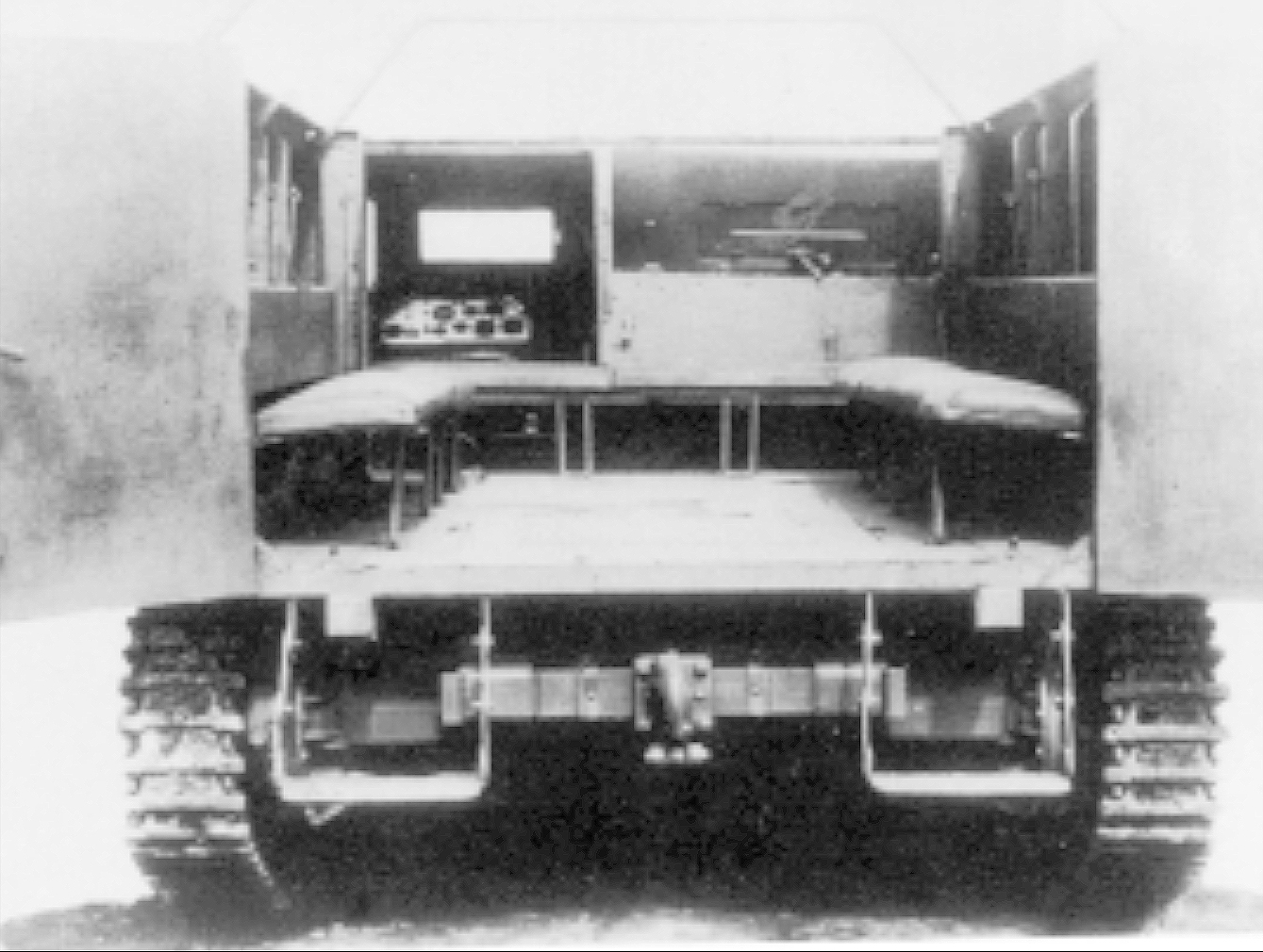 Back view of an IJA Type Ho-Ki armored personnel carrier.